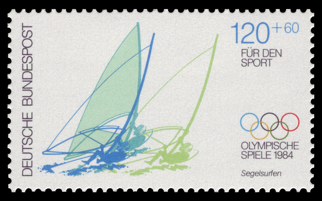 additional fees for German sports, olympic summer games in Los Angeles and paralympic summer games in New York and Illinois